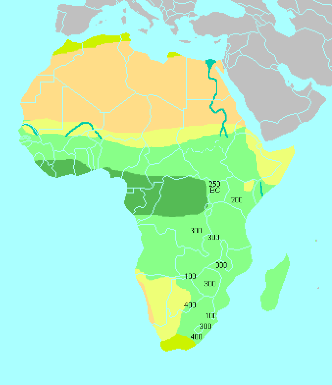 Spread of the "Early Iron Age" in Eastern, Central and Southern Africa, a proxy for the Bantu migrations. Based on K. Shillington, History of Africa (3rd ed. 2005), p. 63. Urewe (Lake Victoria) 250 BCE, Kwale 200 CE, Kisale 300 CE, , Kalundu/Dambwa 100 CE , Kalambo 300 CE, Nkope 300 CE, Gokmere-Ziwa/Bambata 300 CE, presence in South Africa (Kei river) by 400 CE.